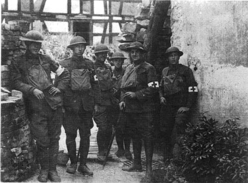 Photograph of medical detachment of 32nd Division in World War I